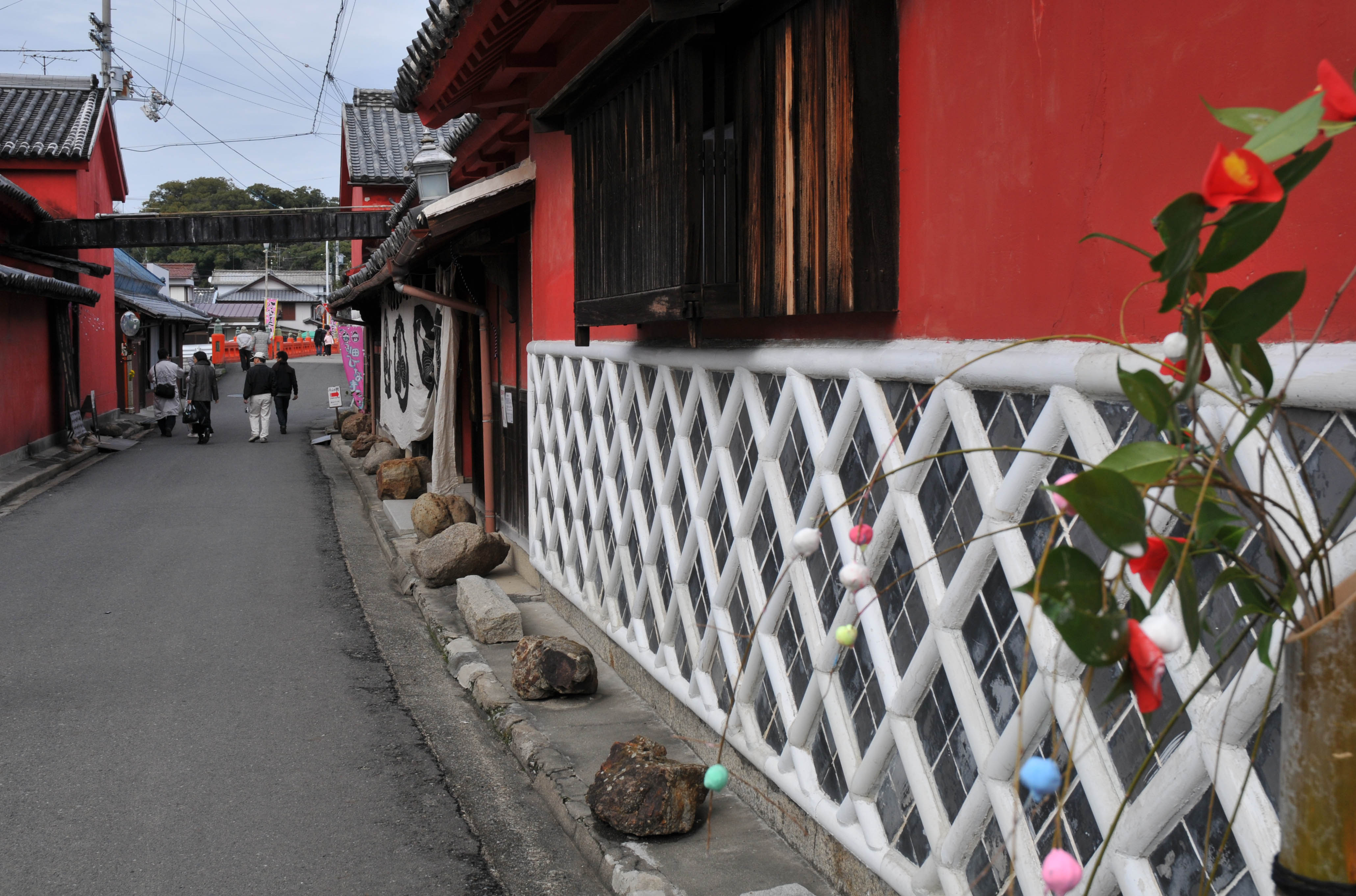 Kamebishi shoyu